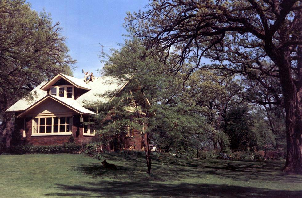 Home of Birgit Ridderstedt and family 1953-1962, with her and a son on the roof.Place: 1112 S. Batavia Avenue, Batavia, IL